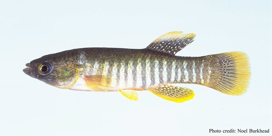 Gulf killifish (Fundulus grandis), male specimen captured at Cedar Key, Dixie County, Florida, United States